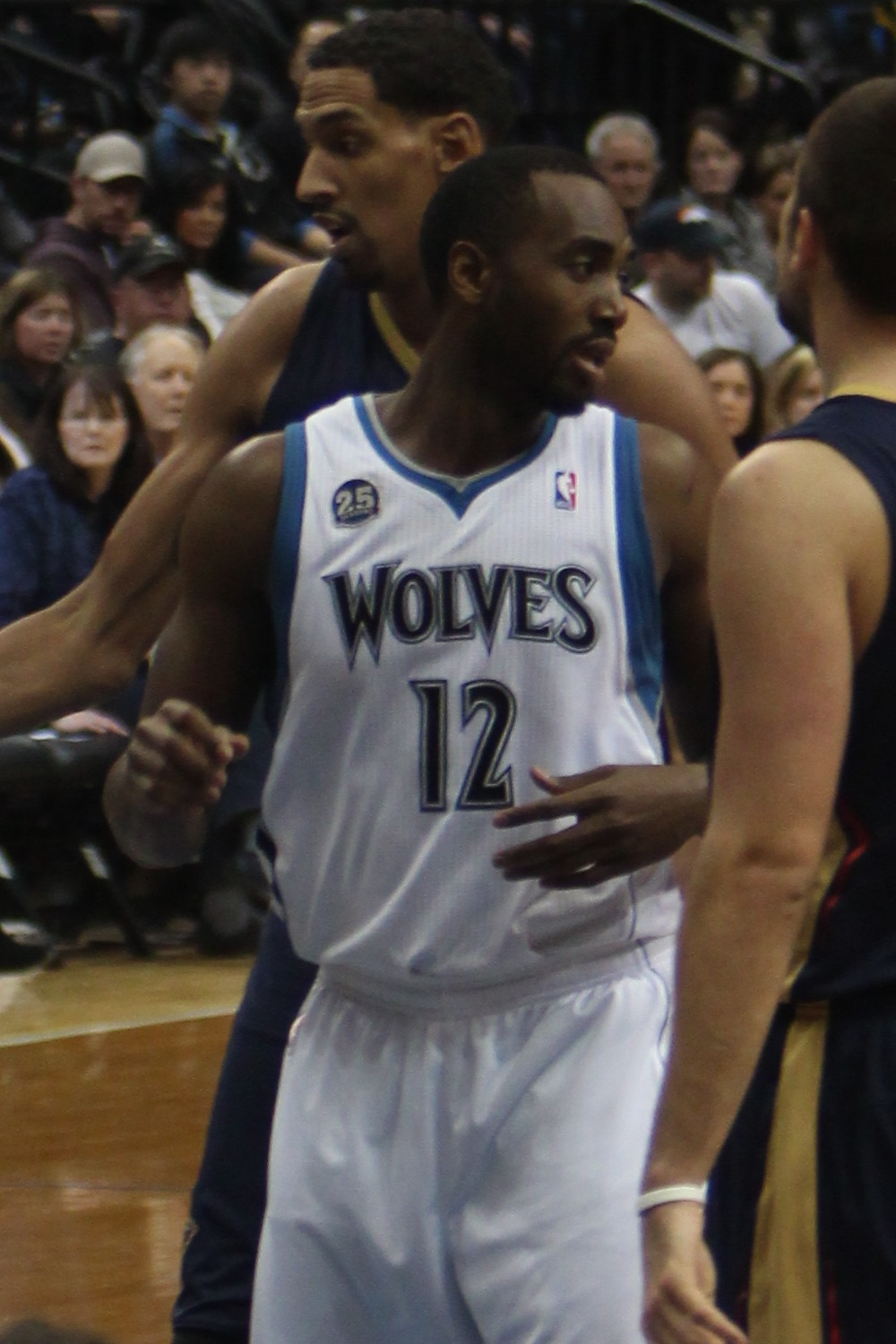 Luc Mbah a Moute